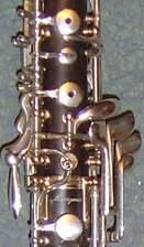 Open and closed Keys on a oboe